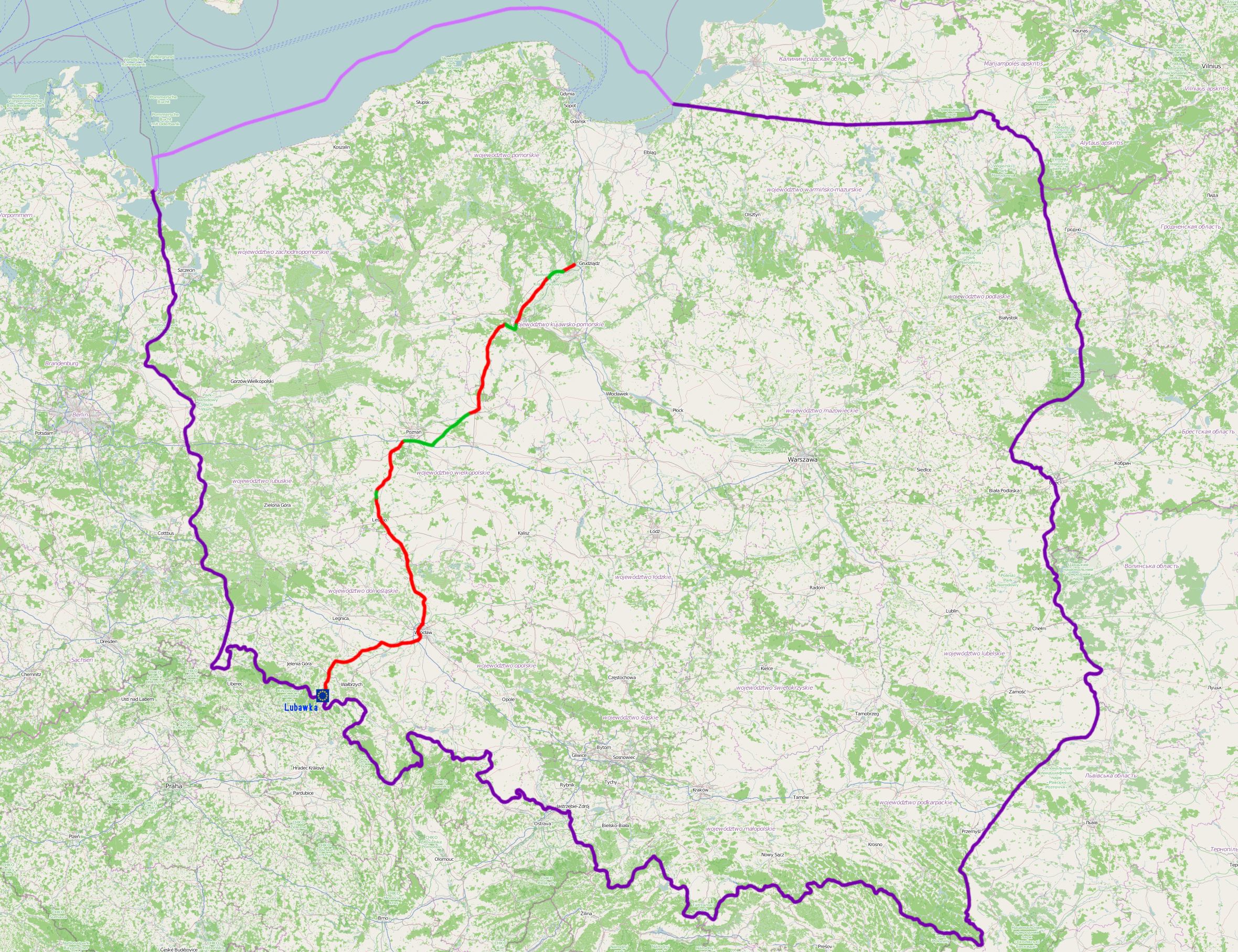 Map of Polish national road 5. Background from OpenStreetMap. National road 5 Expressway S5 Note: National road has two concurrencies - as S5 with motorway A2 near Poznań and as road 5 with motorway A4 near Wrocław.